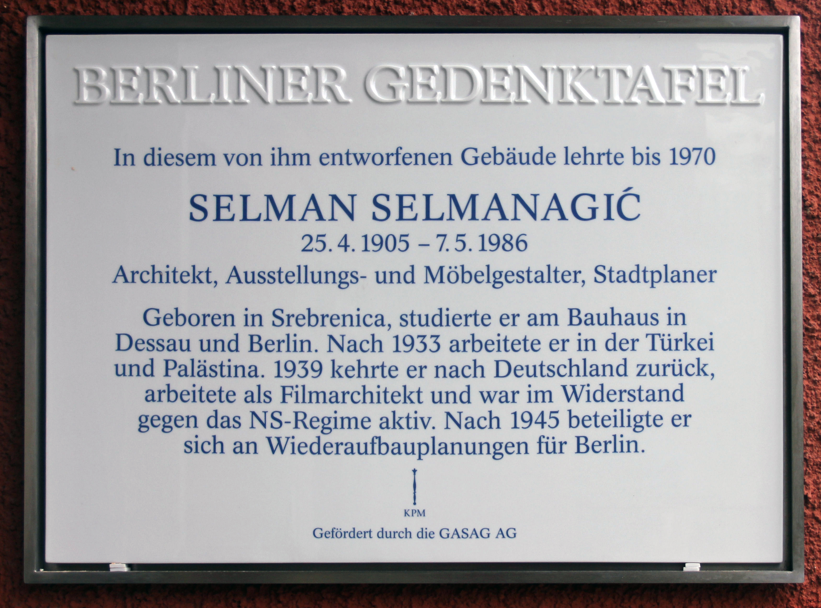 Berlin memorial plaque, Selman Selmanagić, Bühringstraße 20, Berlin-Weißensee, Germany